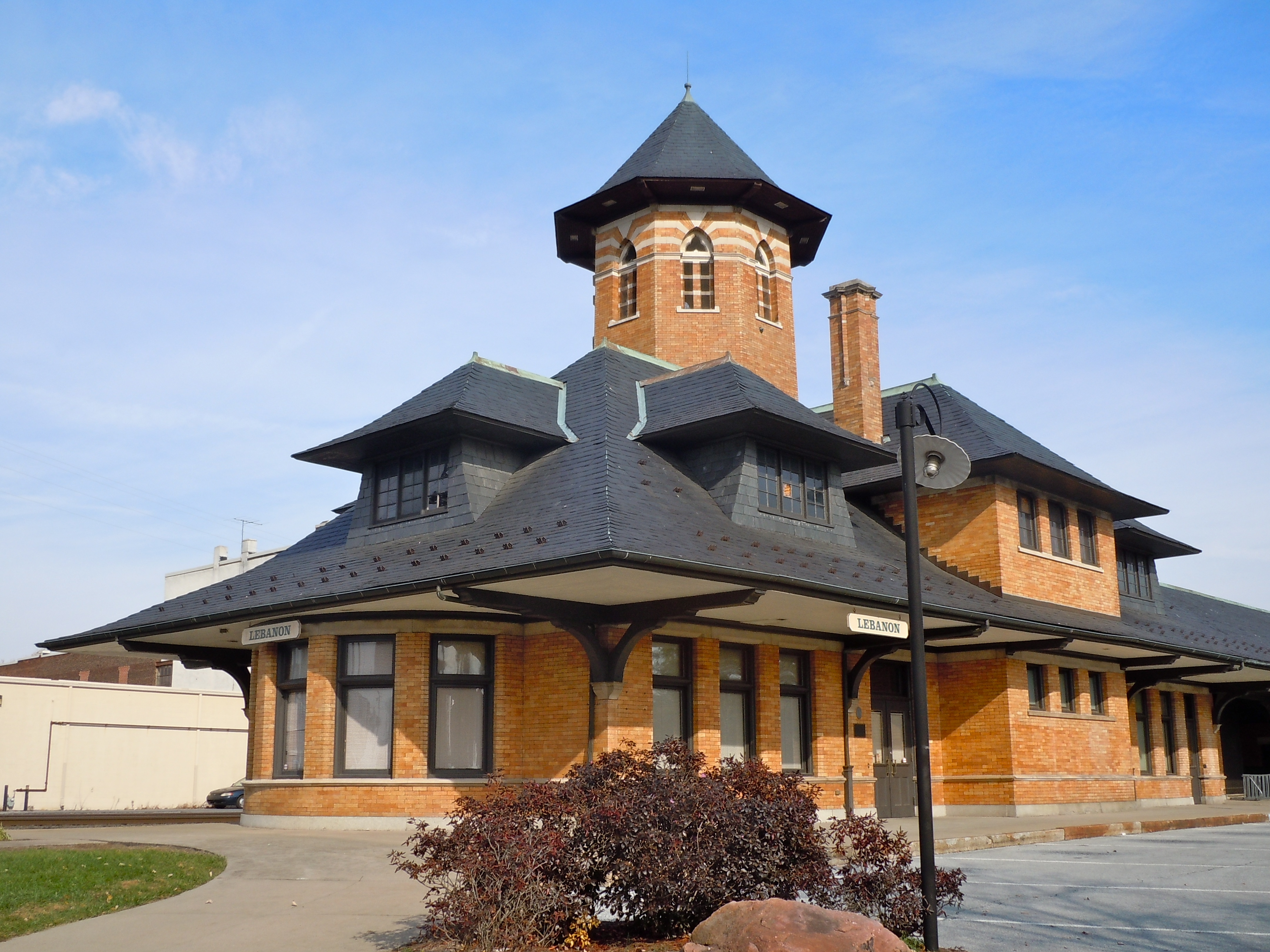 Reading Railroad Station on the NRHP since July 17, 1975. At North 8th Street, Lebanon, Lebanon County, Pennsylvania.